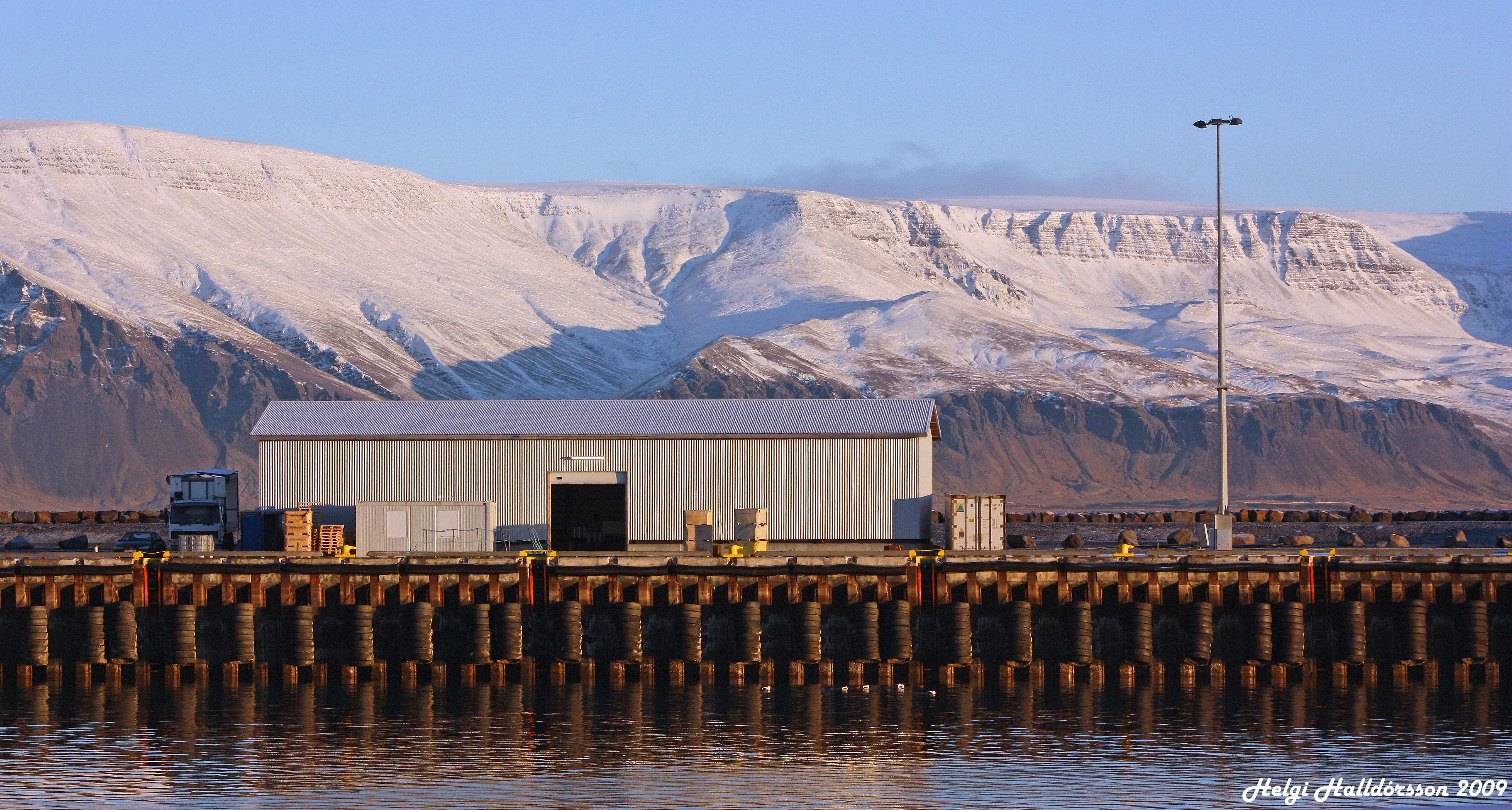 The mountain Esja (914 m (2,999 ft)) most often called Esjan (literally meaning "the Esja") is situated in the south-west of Iceland, about 10 km to the north of Iceland's capital city Reykjavík.